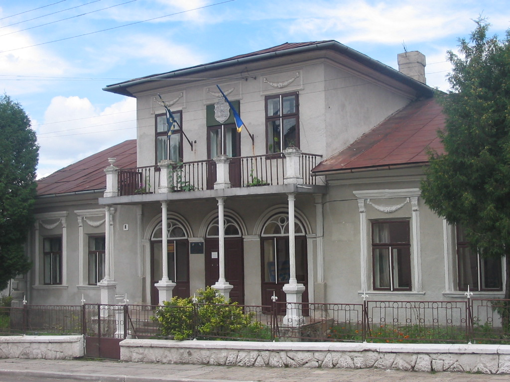 New city hall in Pidhaytsi, Ternopil region, western Ukraine